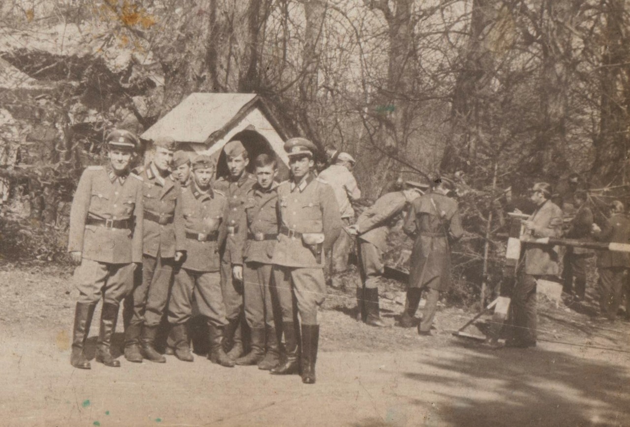 Actors on the set in Wolfschanze, Gierłoż, Poland 1968, film "Liberation" (film series), translit. Osvobozhdenie, directed by Yuri Ozerov. The series was a Soviet-Polish-East German-Italian-Yugoslav co-production.